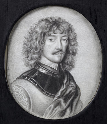 WILLIAM MURRAY, 1ST EARL OF DYSART by David Paton (fl.1660-1695), miniature painting in the Duchess's Private Closet at Ham House, Richmond-upon-Thames. Property Name Ham House and Garden NTPL Ref. No. 172304